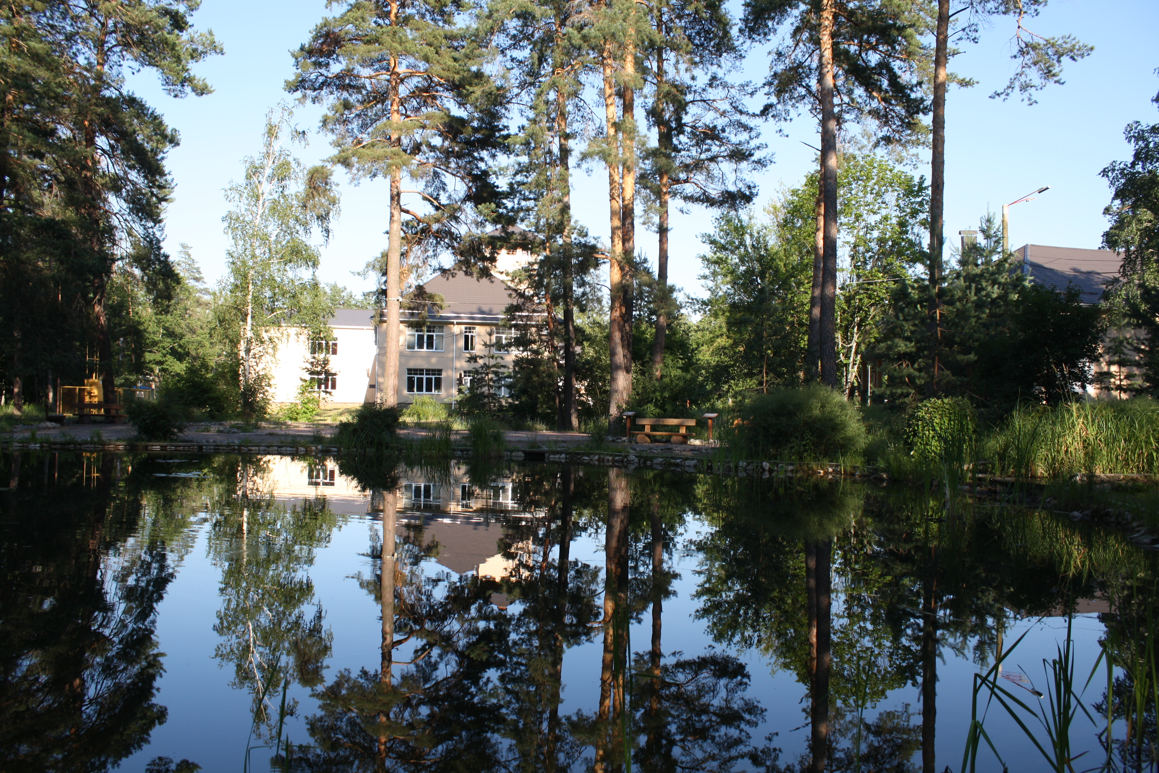 Lake in Voronezh Biosphere Reserve.jpg This is an image of the Biosphere Reserve: Voronezhskiy